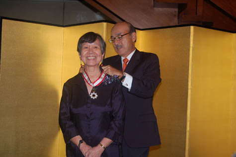 Lydia Yu-Jose, Professor Emerita of Political Science and Japanese Studies at the Ateneo de Manila University being conferred the Order of the Rising Sun by Japanese Ambassador to the Philippines Toshinao Urabe. The official description is below: “Ambassador of Japan to the Republic of the Philippines, His Excellency Toshinao Urabe, conferred on behalf of His Majesty The Emperor of Japan upon Prof. Lydia N. Yu Jose, Professor at the Department of Political Science and at the Japan Studies Program in Ateneo de Manila University, a decoration of the Order of the Rising Sun, Gold Rays with Neck Ribbon at a Conferment Ceremony held at the Ambassador's residence in Forbes Park, Makati, on June 13, 2012.”